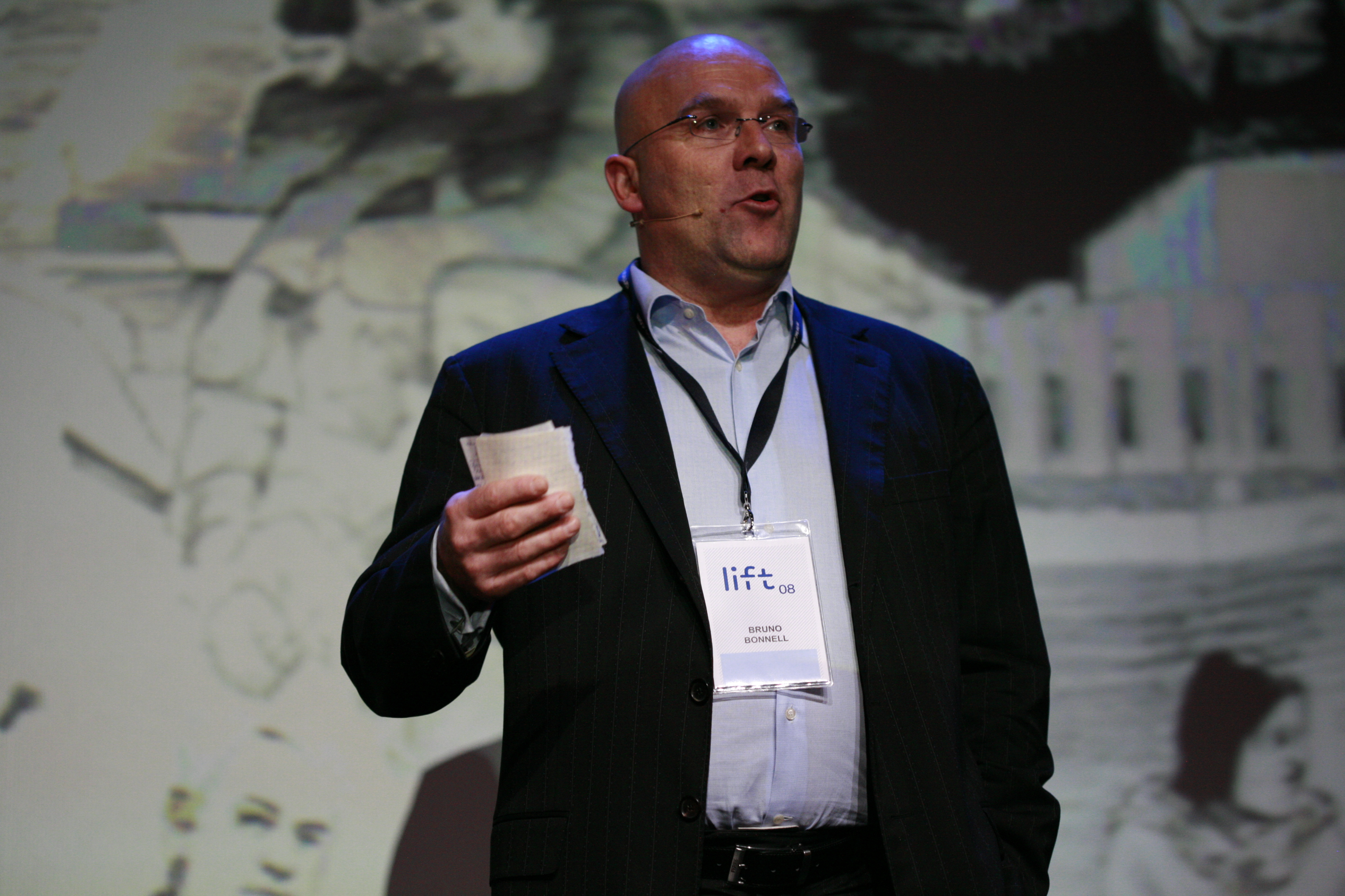 Lift conference 2008